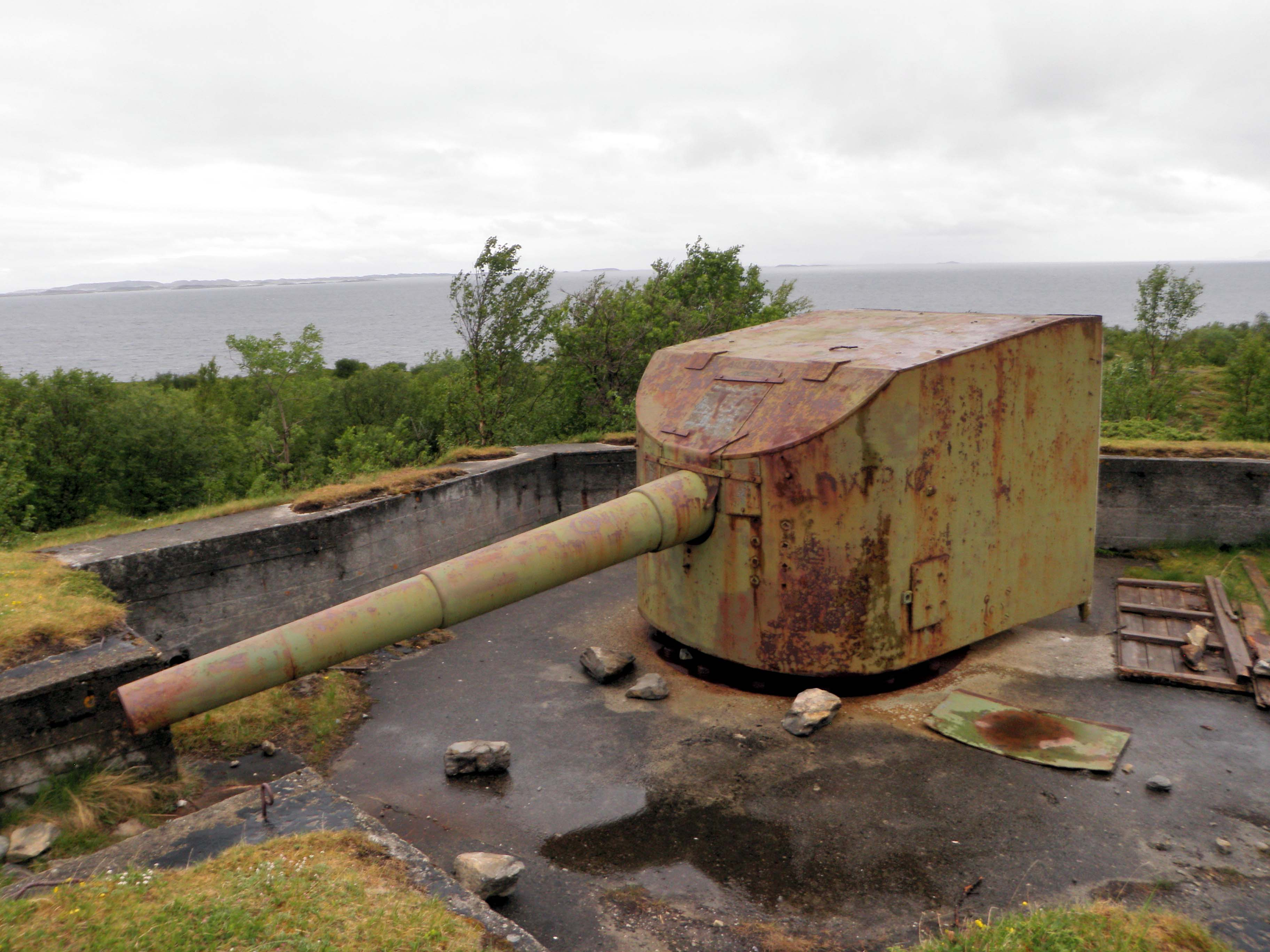 15 cm SK L/45 coastal artillery gun at Nordarnøy in Gildeskål, Norway.